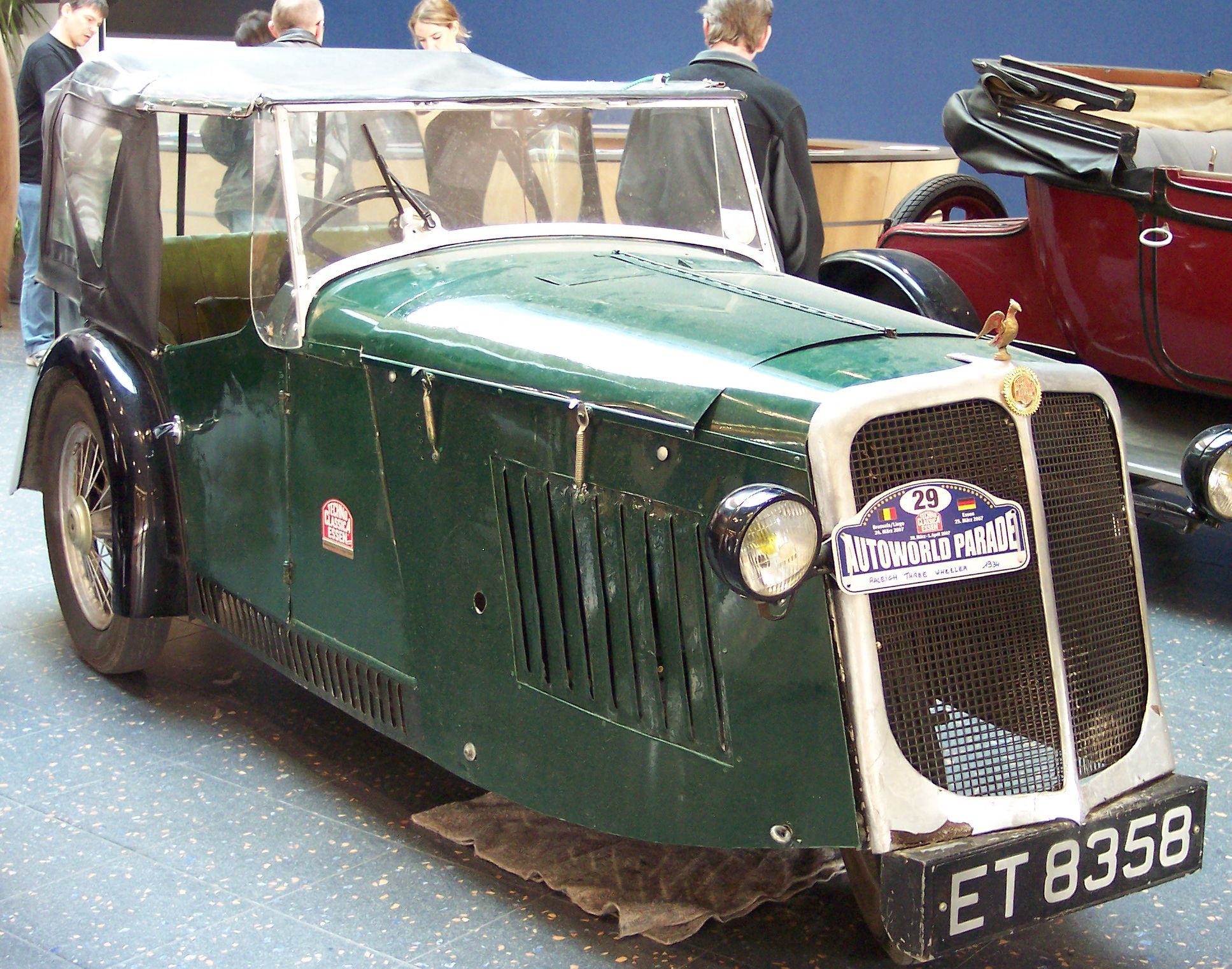 Raleigh Three Wheeler 1934